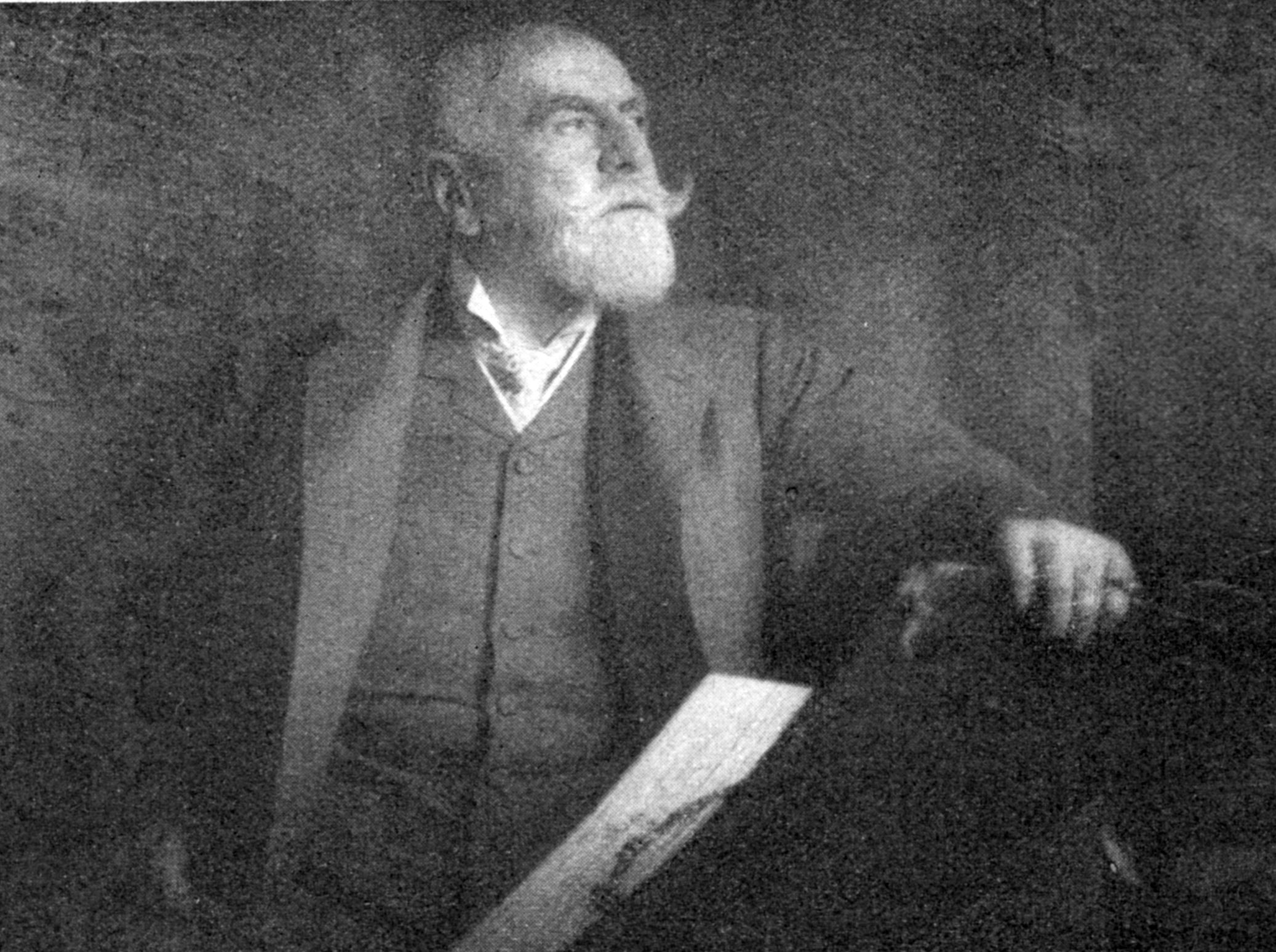 Karl de Bouché